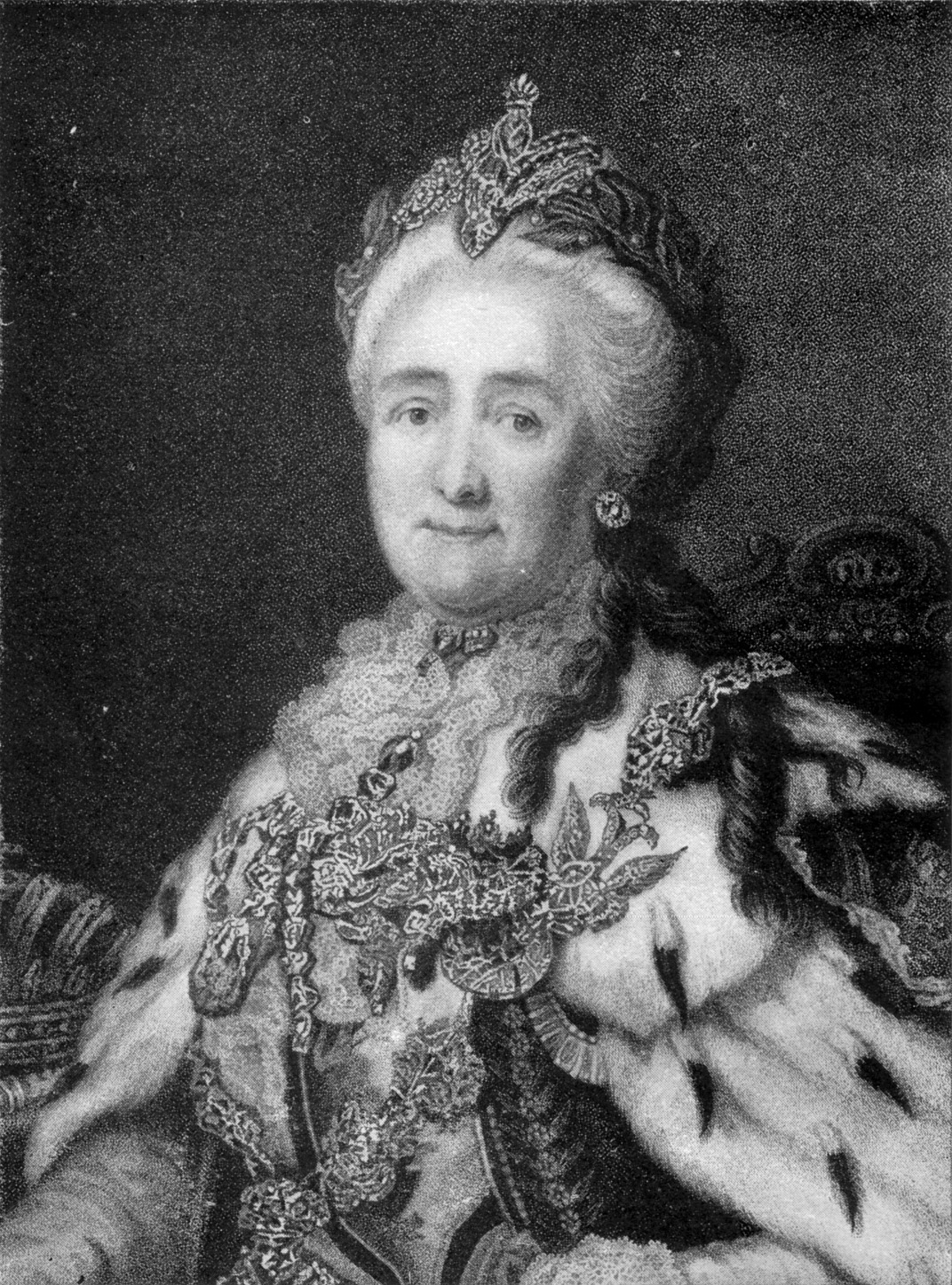 CATHERINE II.